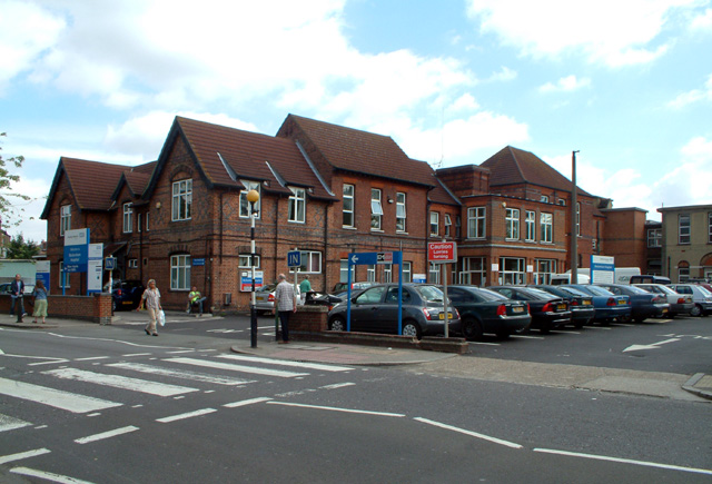 Beckenham Hospital. Located in Croydon Road and a short walk from the war memorial roundabout is Beckenham Hospital, formerly known as Beckenham Cottage Hospital. Redevelopment, begun in 2005, is due to be completed in 2008. The site will house a wide range of services including general practice, community health, the minor injuries unit, open access dental care, community mental health, x-ray, blood testing, consultant-led outpatient clinics and pharmacy services.